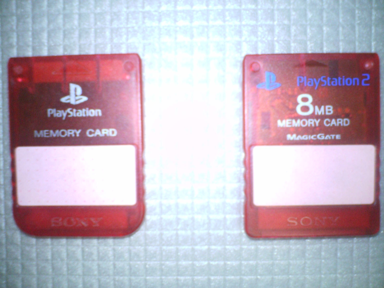 Memory card for PlayStation(Left) and PlayStation 2(Right)